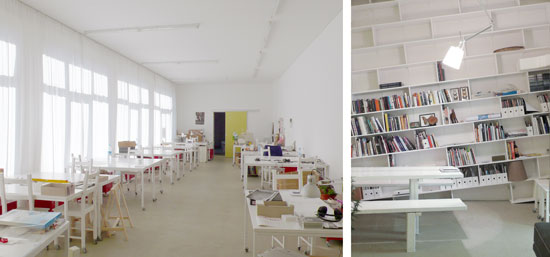 Image of the office and library at PROGRAM.